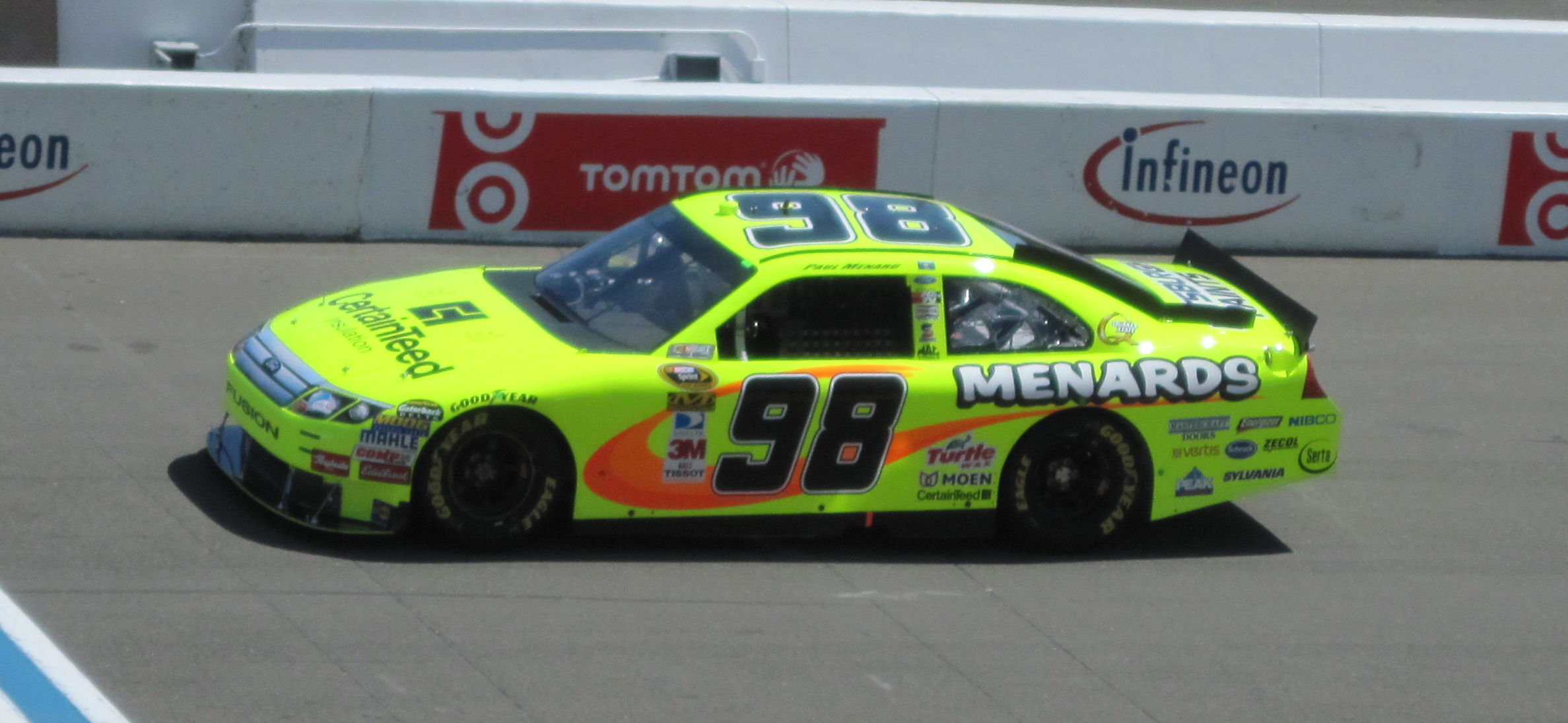 Paul Menard's No. 98 Menards/CertainTeed Ford at Infineon Raceway in 2010